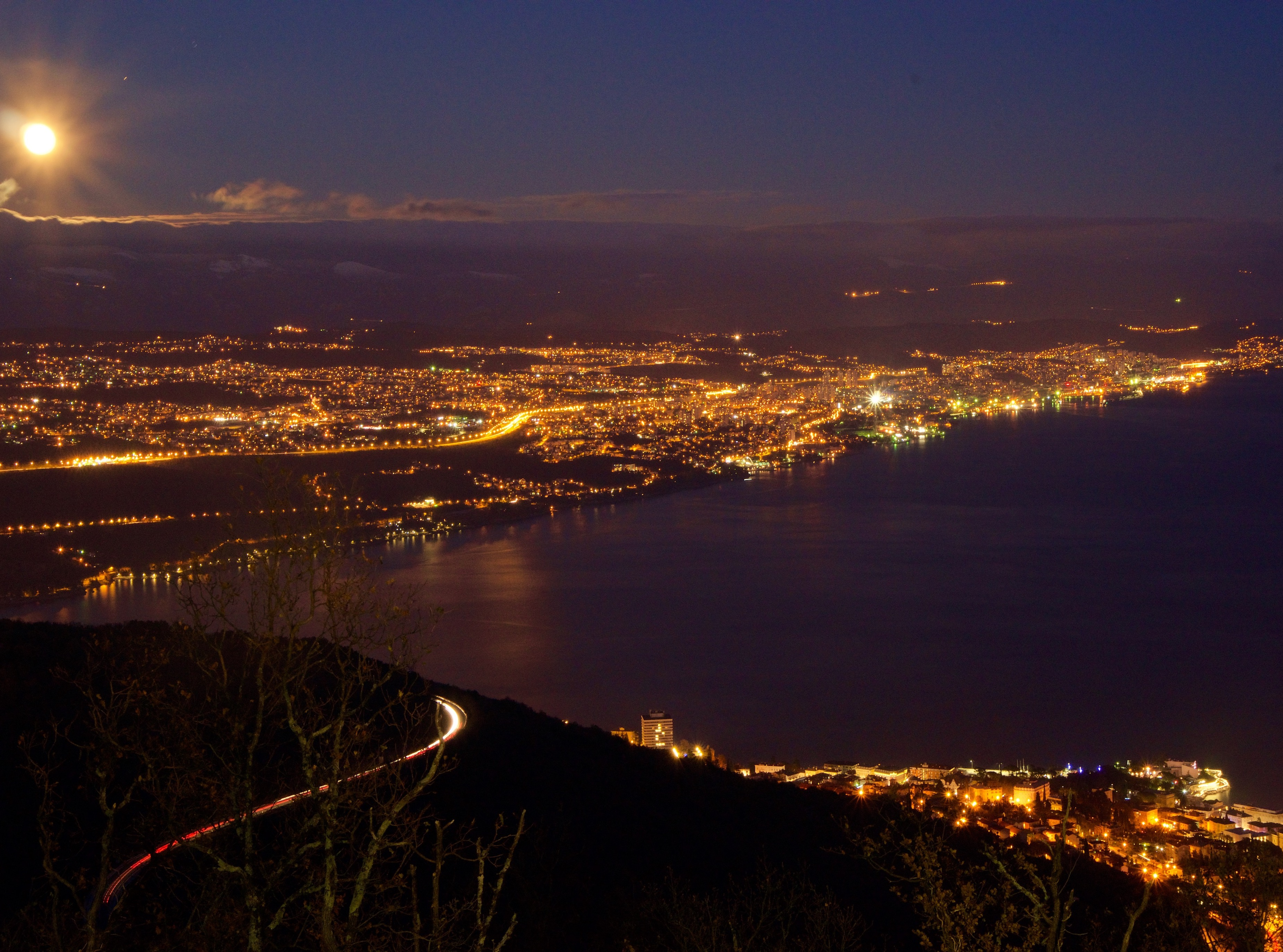 Beautiful view of Rijeka from Veprinac